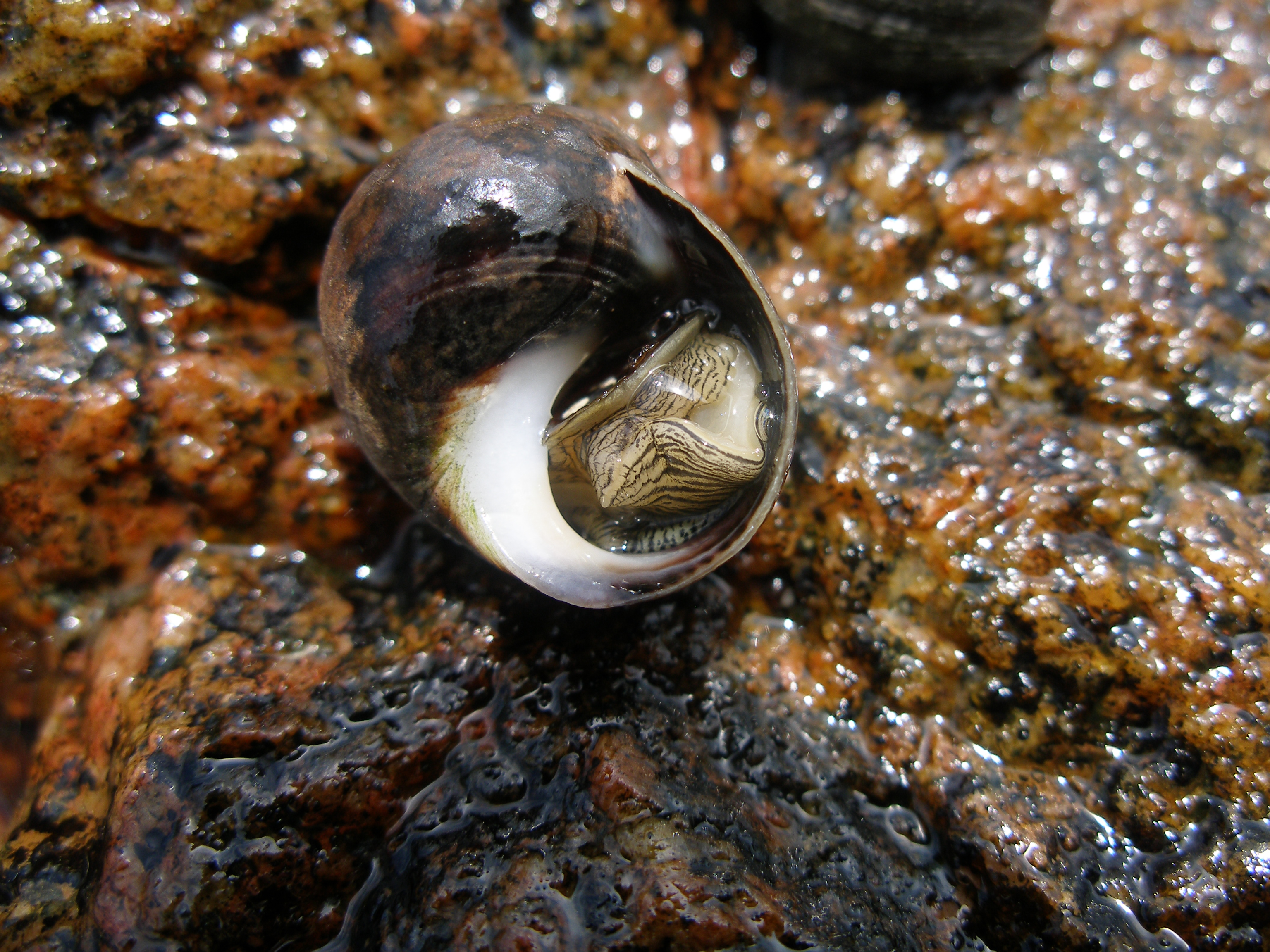 Entrance of a sea snail's house with living sea snail within. Veddö naturreservat, Sweden 2005.